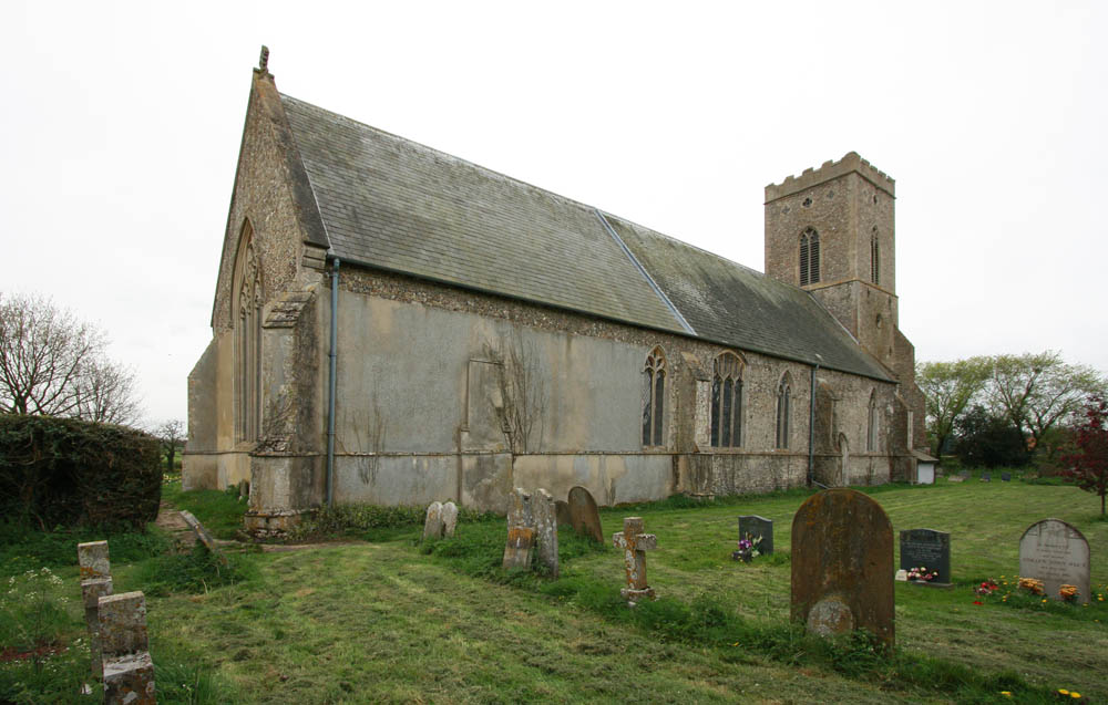 Parish church of St Mary of Pity, Burgate, Suffolk, seen from the northeast